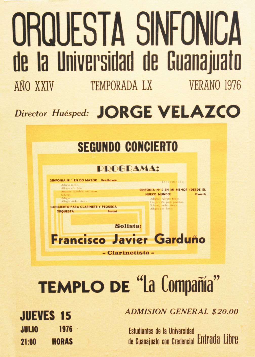 Poster of the concerto in which he played as a solist.